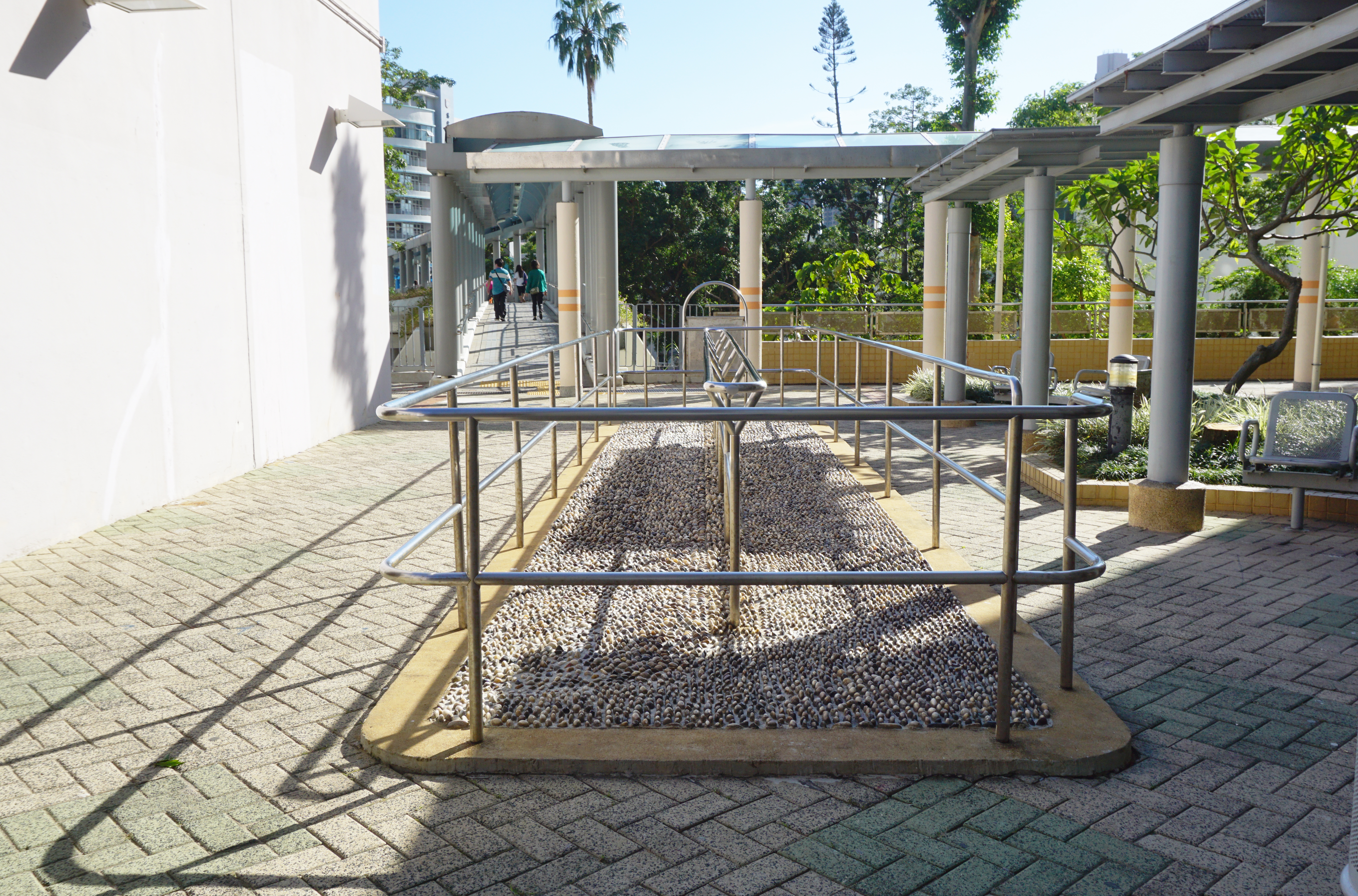 Tsz Hong Estate in Tsz Wan Shan, Hong Kong.